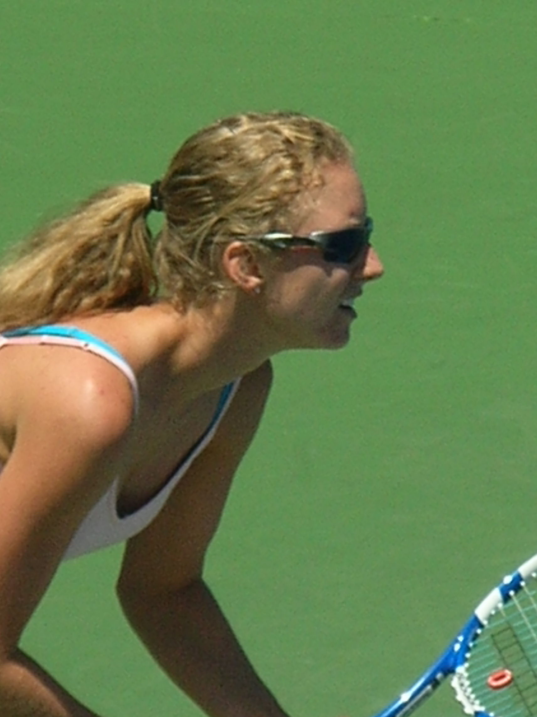 Urszula Radwańska practicing at the Bank of the West Classic at Stanford. Note: Urszula did not play in the Bank of the West Classic, but her sister Agnieszka did.